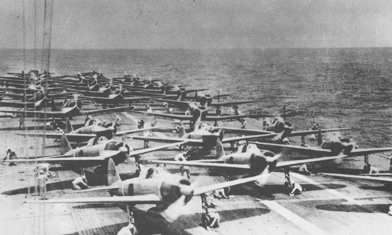 Aircraft prepare to depart the Imperial Japanese Navy aircraft carrier Shokaku for the first wave of strikes on the US naval base at Pearl Harbor, Hawaii on December 7, 1941.